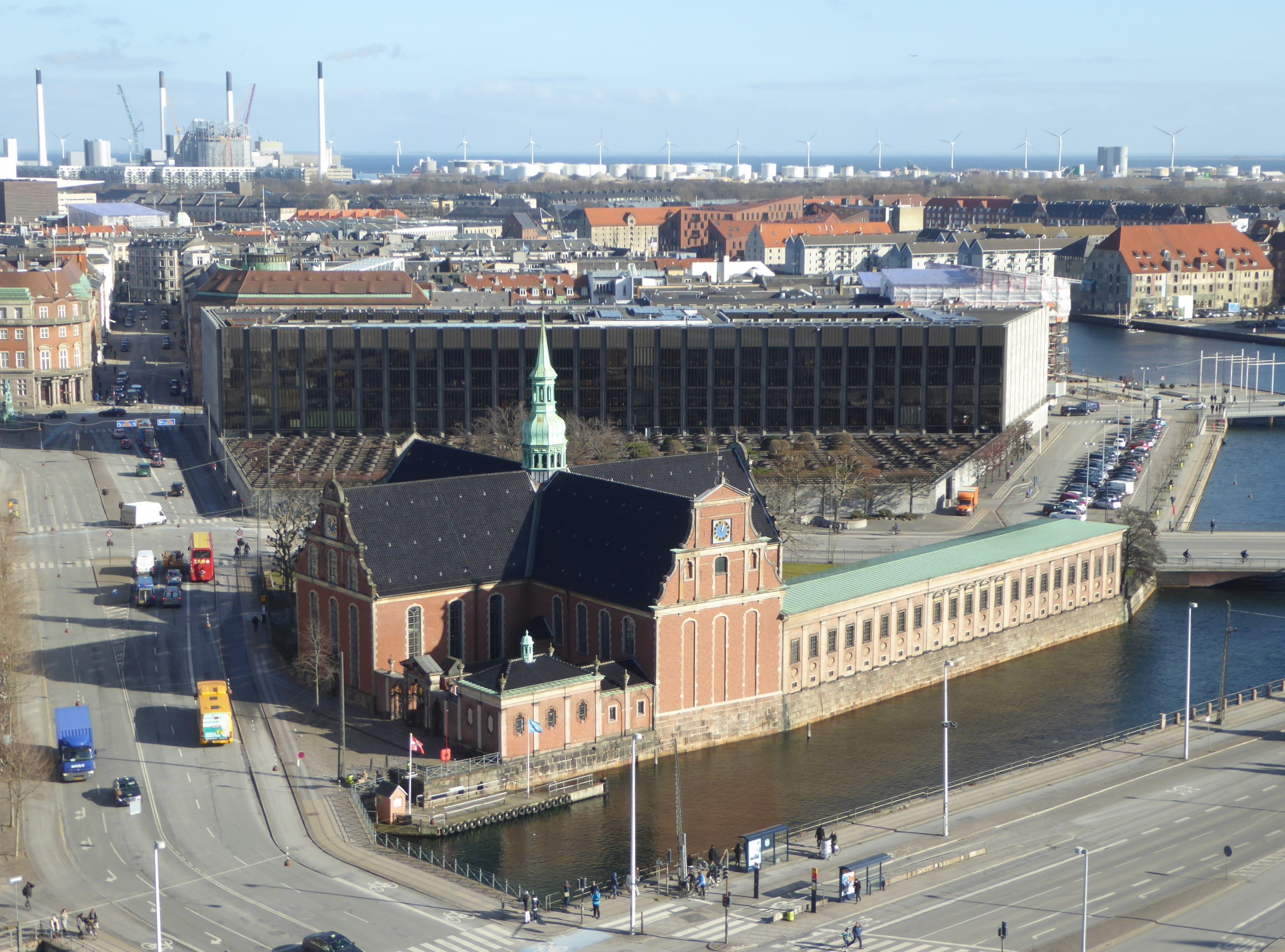 View against northeast from the tower of Christiansborg Palace in Copenhagen. Holmens Kirke with the National Bank of Denmark behind.